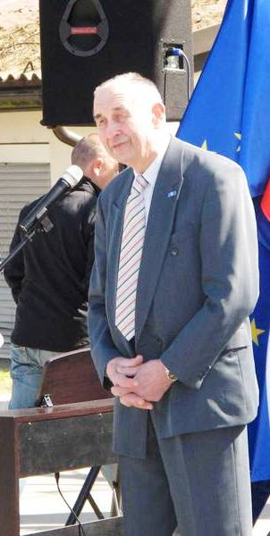 Ivan Oman, Slovene politician